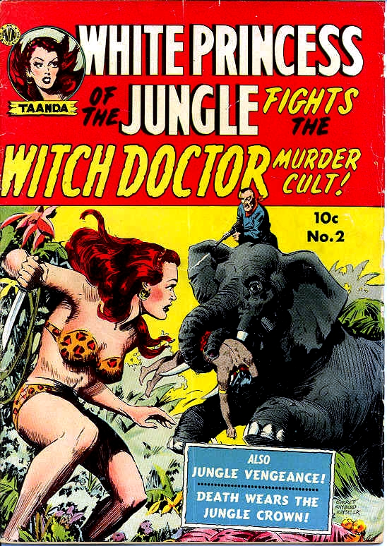 Cover scan of a White Princess #2, 1951